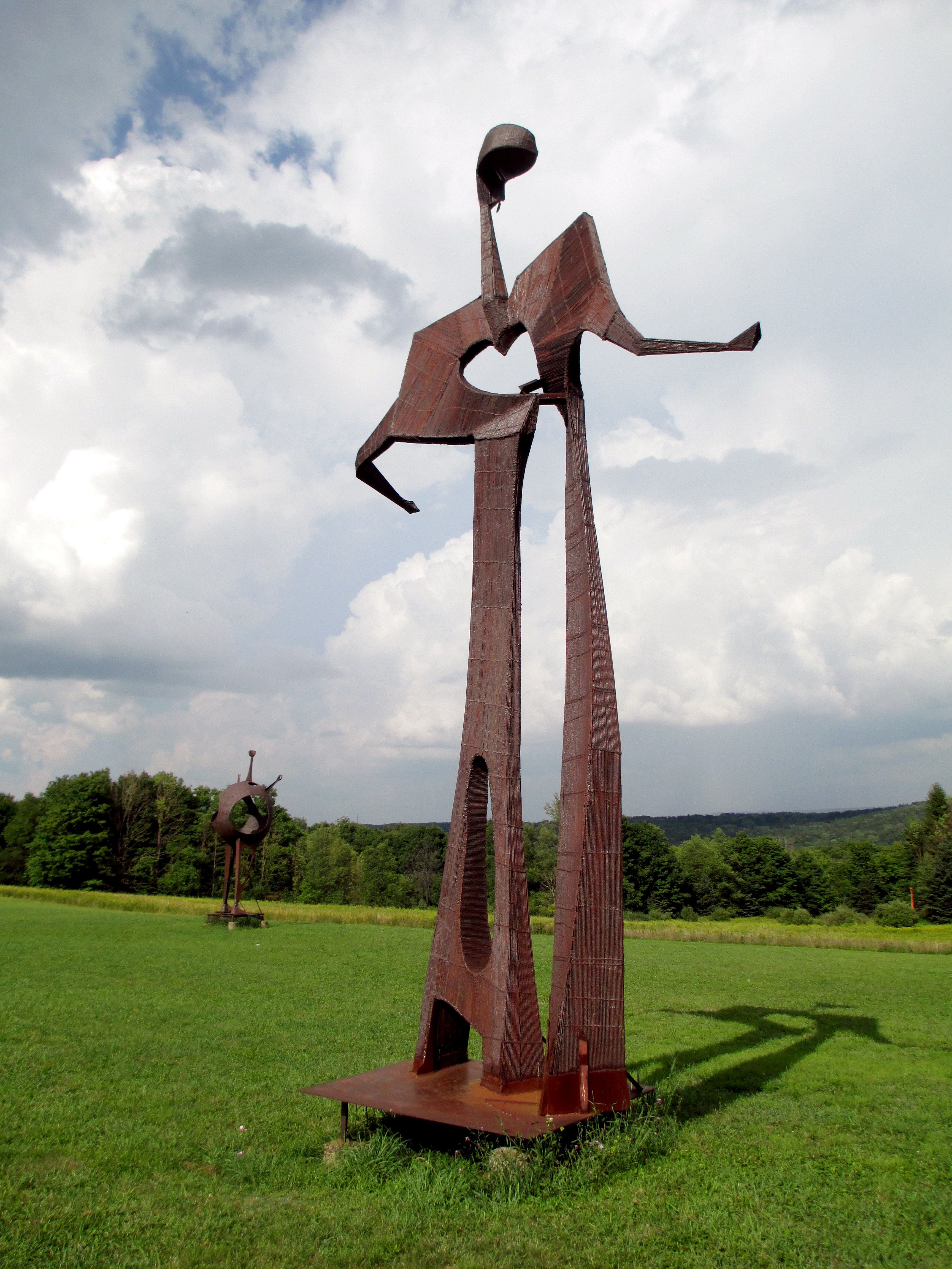 Metal sculptures at the Rohr Hill Road section of Griffis Sculpture Park in Cattaraugus County, New York.